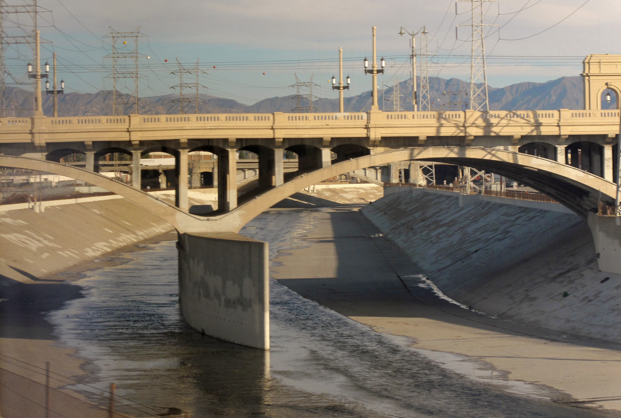 First Street bridge over the Los Angeles River, Los Angeles, California